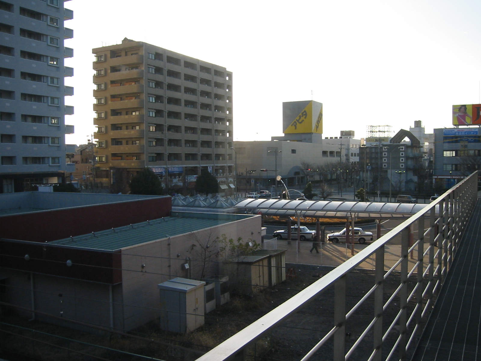 View from the building of Fujieda Station in Fujieda City, Shizuoka Prefecture, Japan.